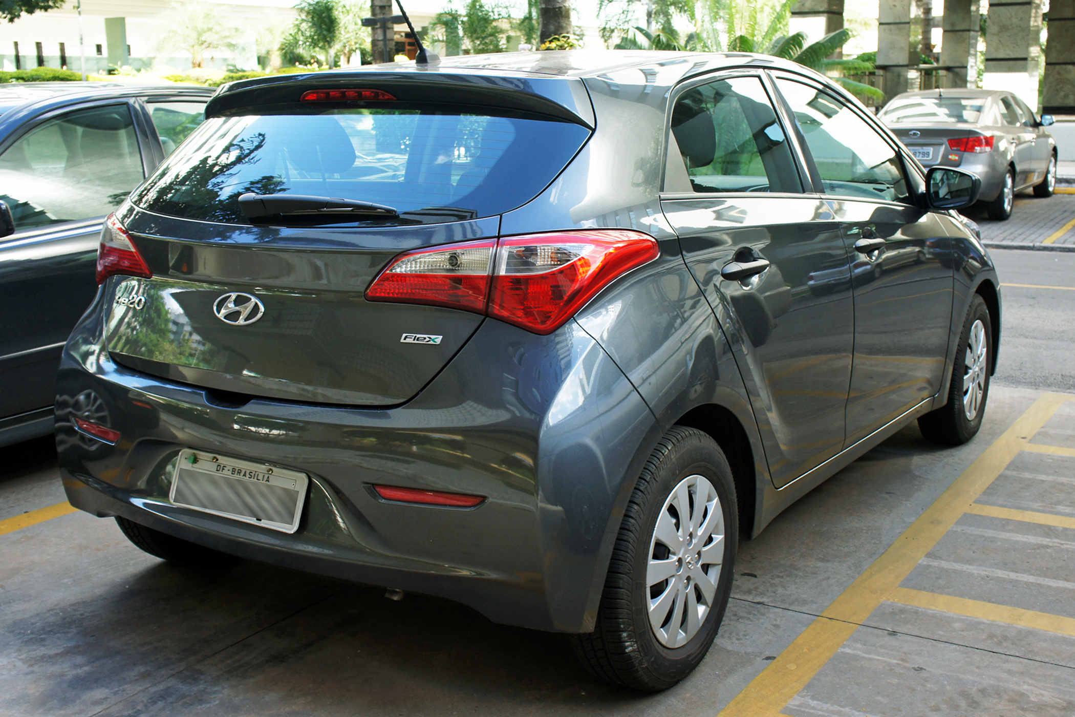 2012 Hyundai HB20 flexible-fuel car, rear view, Brasilia, Brazil